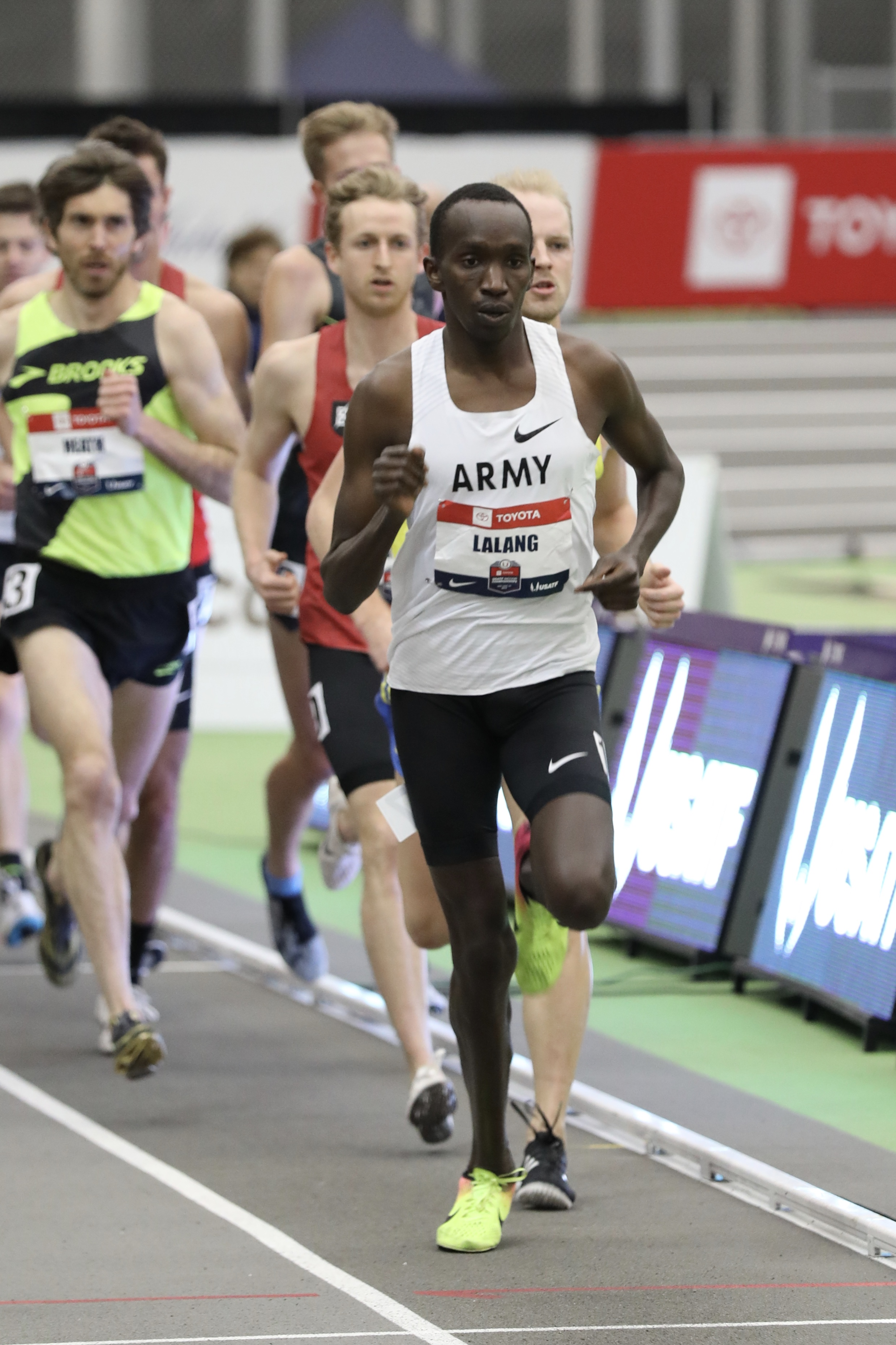 2019 USA Indoor Track and Field Championships